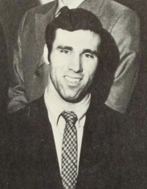 Yearbook photograph of Joe Bergman.